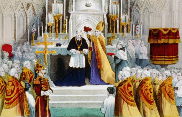 Imposing the Cardinal's Berretta, lithograph depicting Archbishop John McCloskey's elevation to cardinal